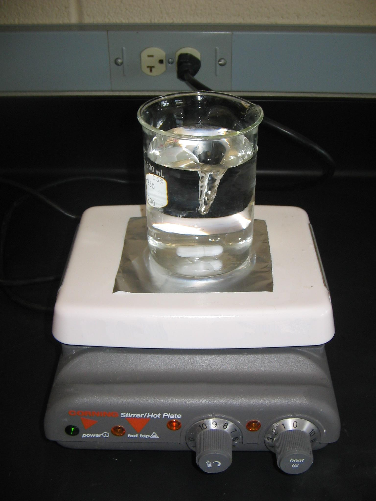 Magnetic stir bar stirring an aqueous solution in a beaker on a hot plate stirrer (aluminium foil underneath beaker is for contrast only).